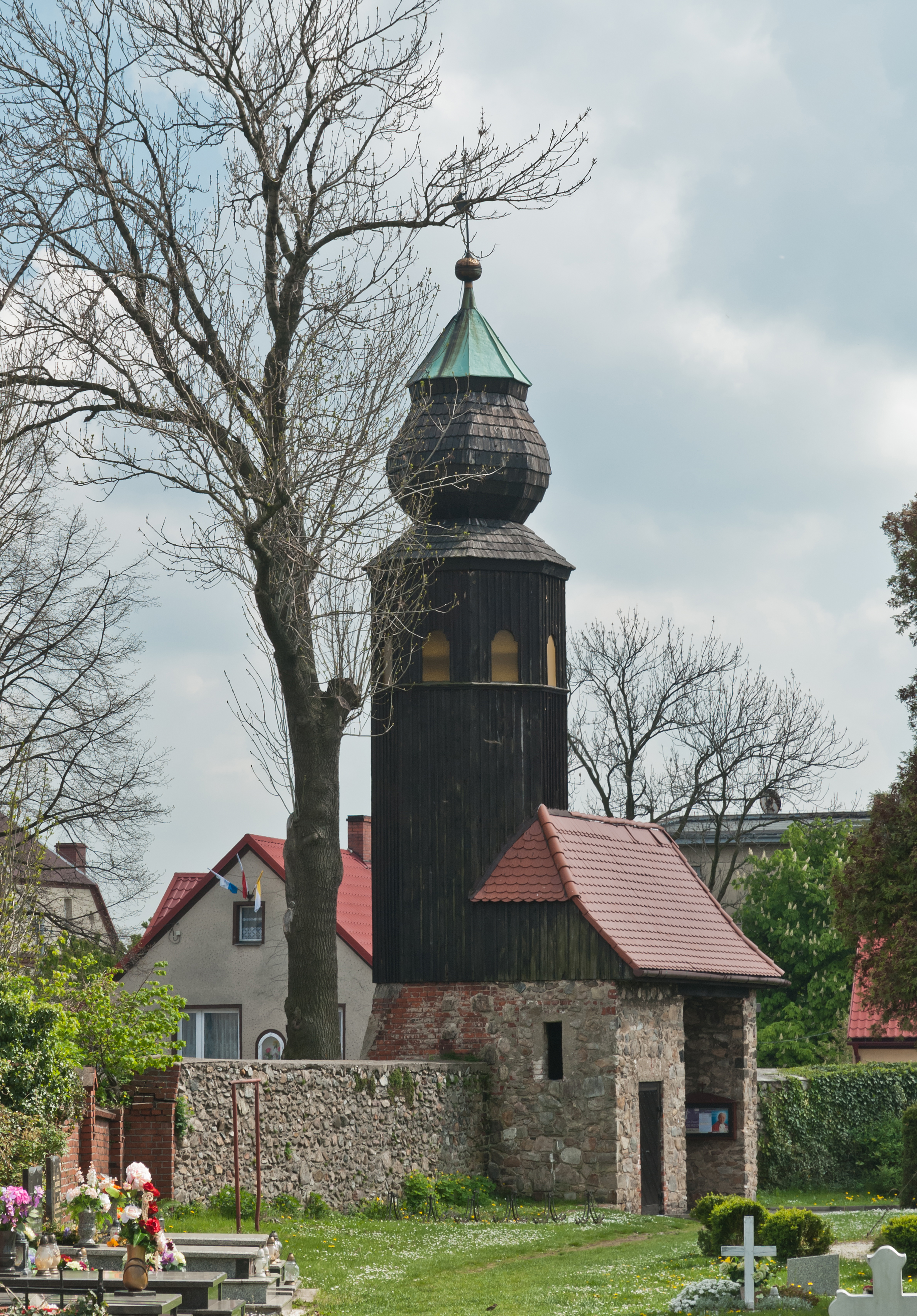 Saint George church in Kamienica, wooden belfry